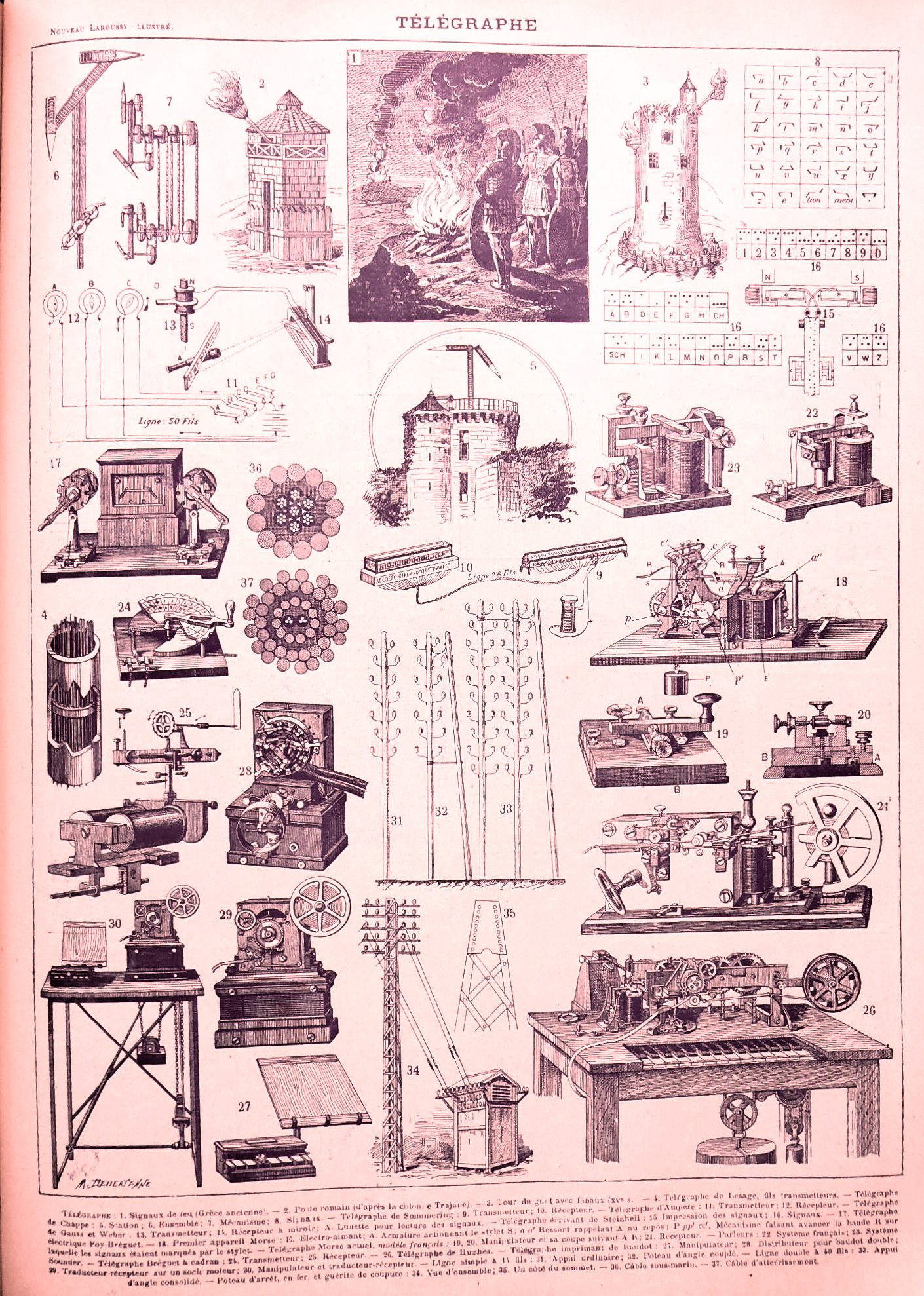 Telegraph before 1900